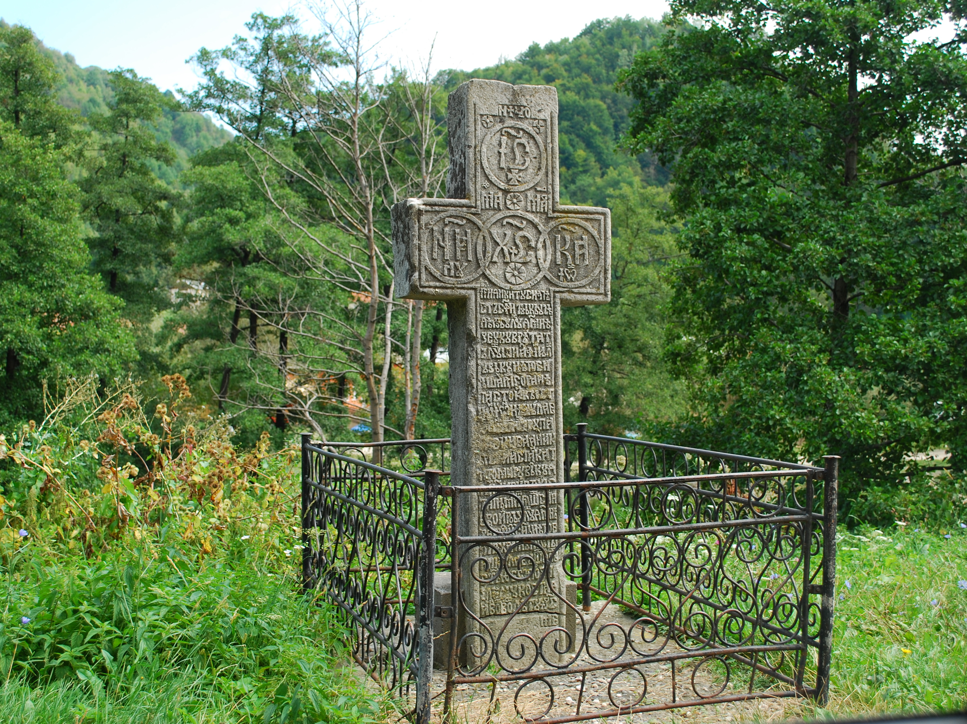 Roadside stone cross in Cetățeni, Argeș County, Romania